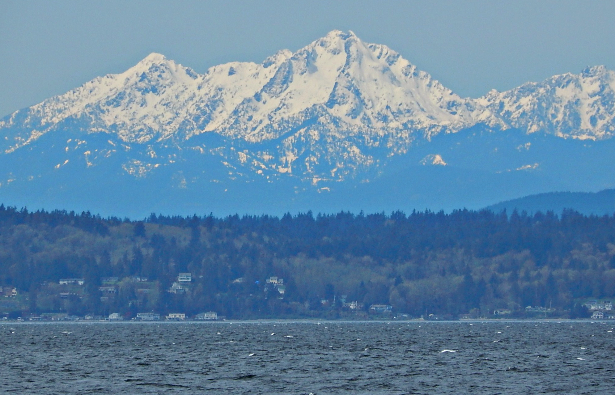 Mount Ellinor and Mount washington seen from Lincoln Park in West Seattle, Washington. Olympic Mountains.